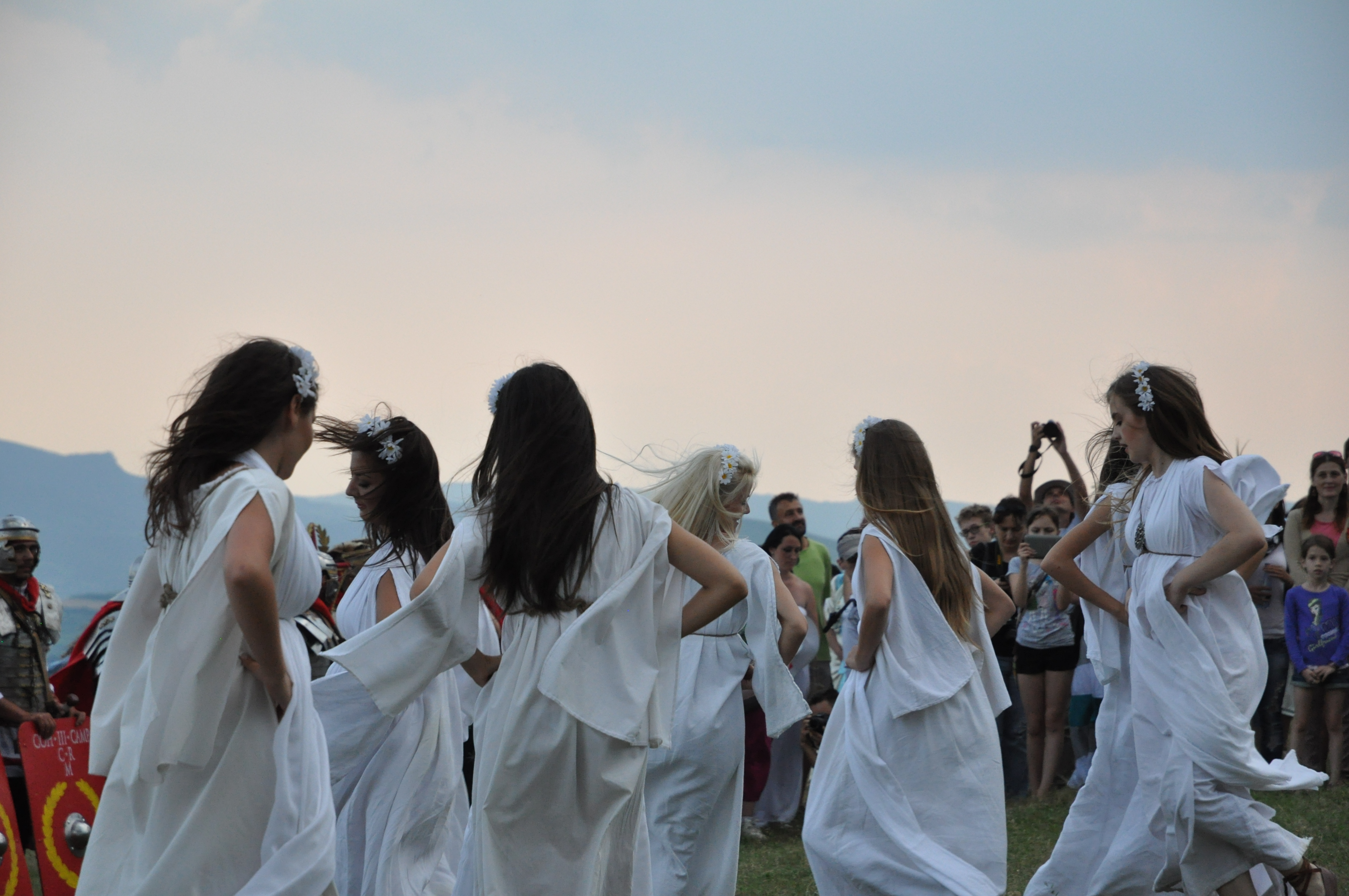 Sânzienele at Cricău Festival 2013